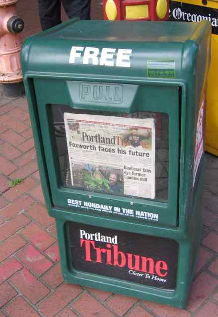 A distribution box for the Portland Tribune; downtown Portland, June 2006. Created by uploader.